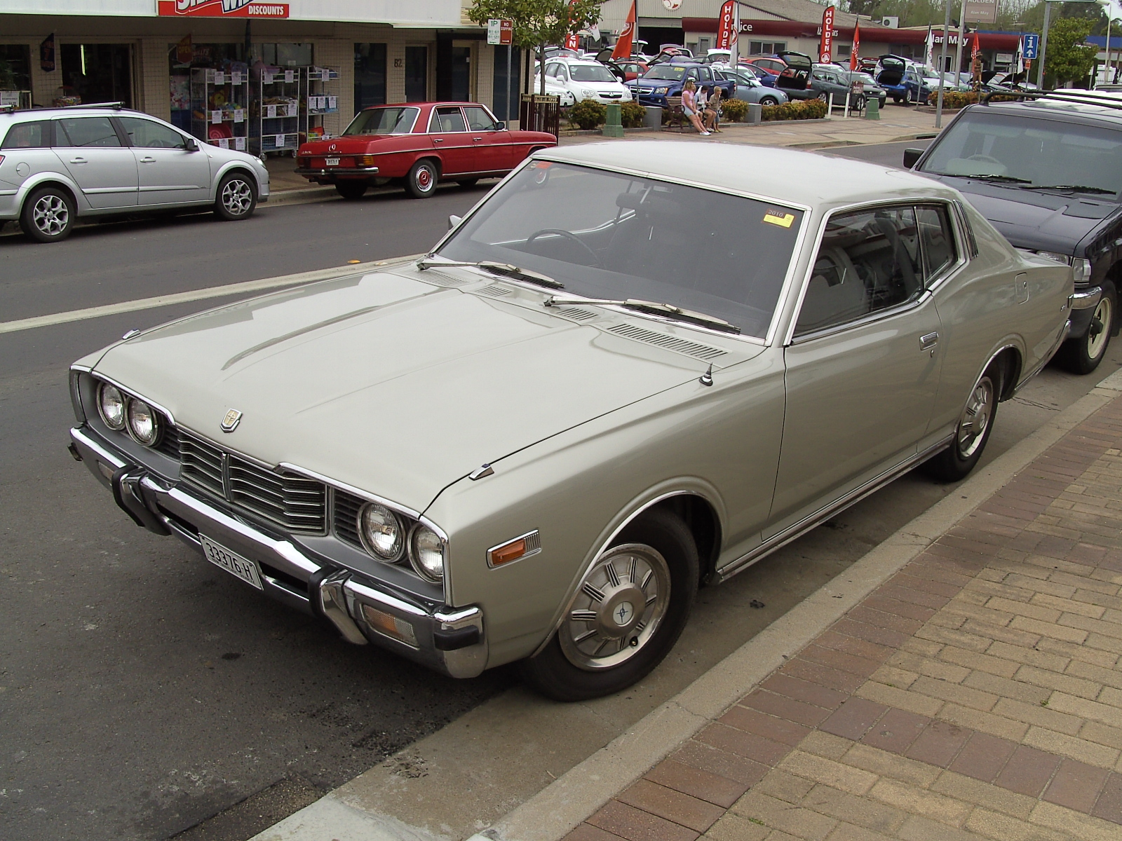 1976 Datsun 260C 2-door right-hand drive. Photographed at 88 Vulcan St, Moruya NSW 2537, in New South Wales, Australia.